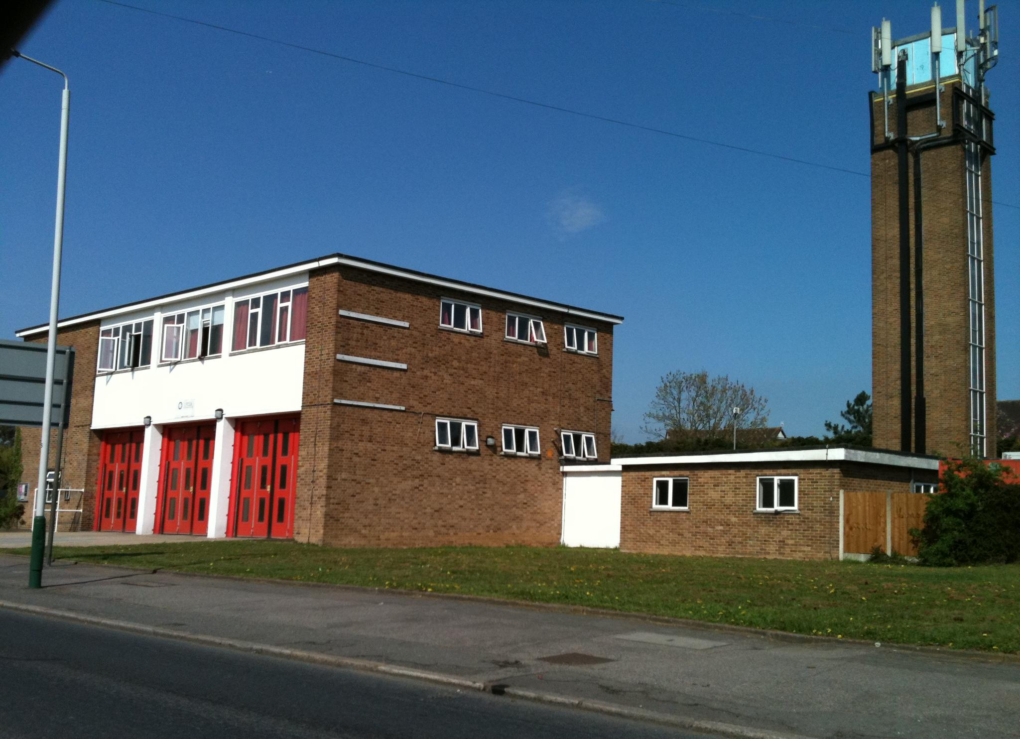 Romford fire station, Petits Lane North, Romford, Greater London. Pictured using my iPhone, on a sunny April afternoon.